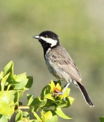 An adult Grey Tit at Namaqua National Park, Northern Cape, South Africa.